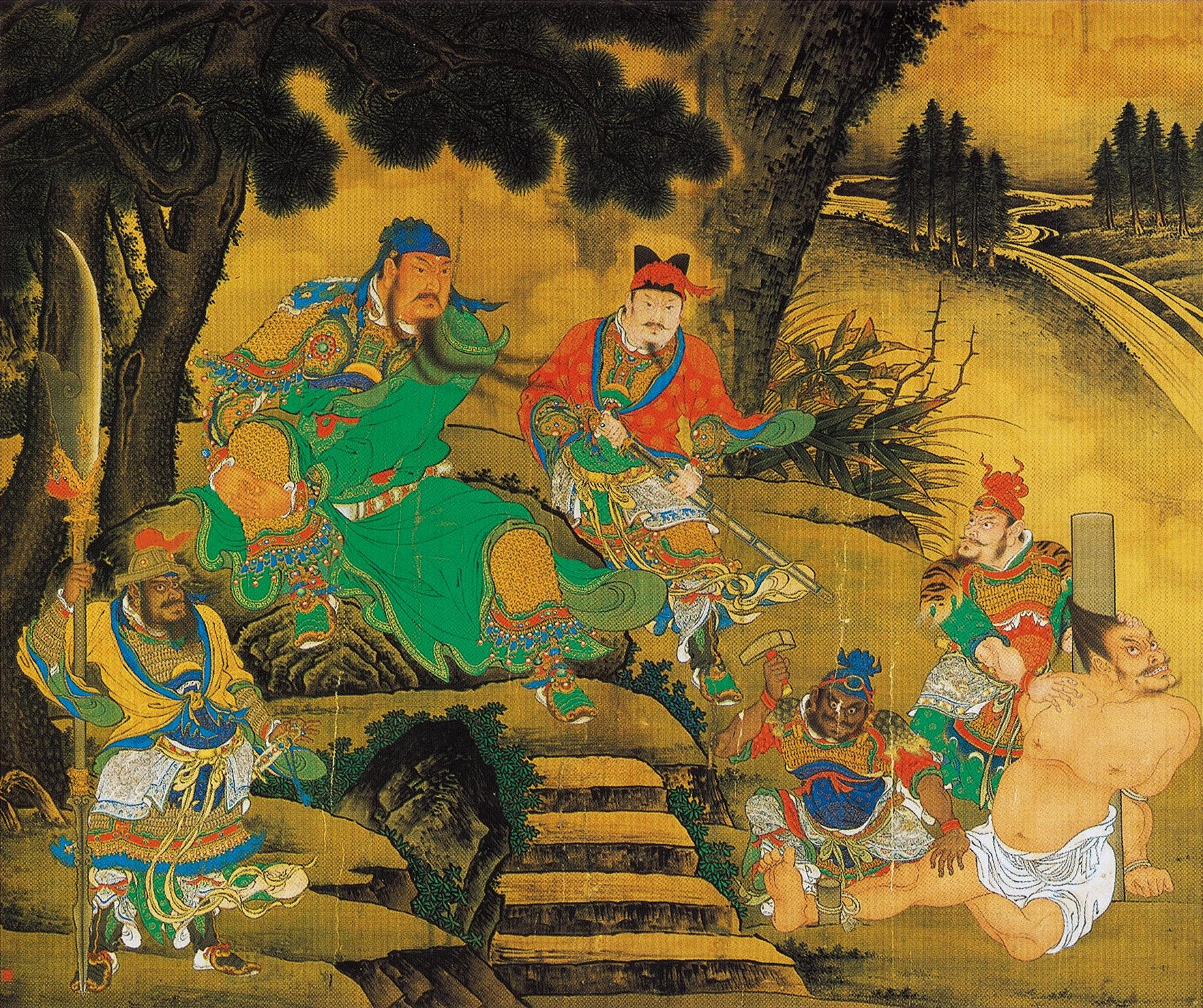 'Guan Yu Capturing His Enemy Pang De' (关羽擒将). Ink and color on silk. 200 x 237 cm. Located in the Palace Museum, Beijing. The image is of the siege city of Fancheng (樊城, present day Xiangfan, Hubei), where Guan Yu captures Pang De (庞德) in the year 219.